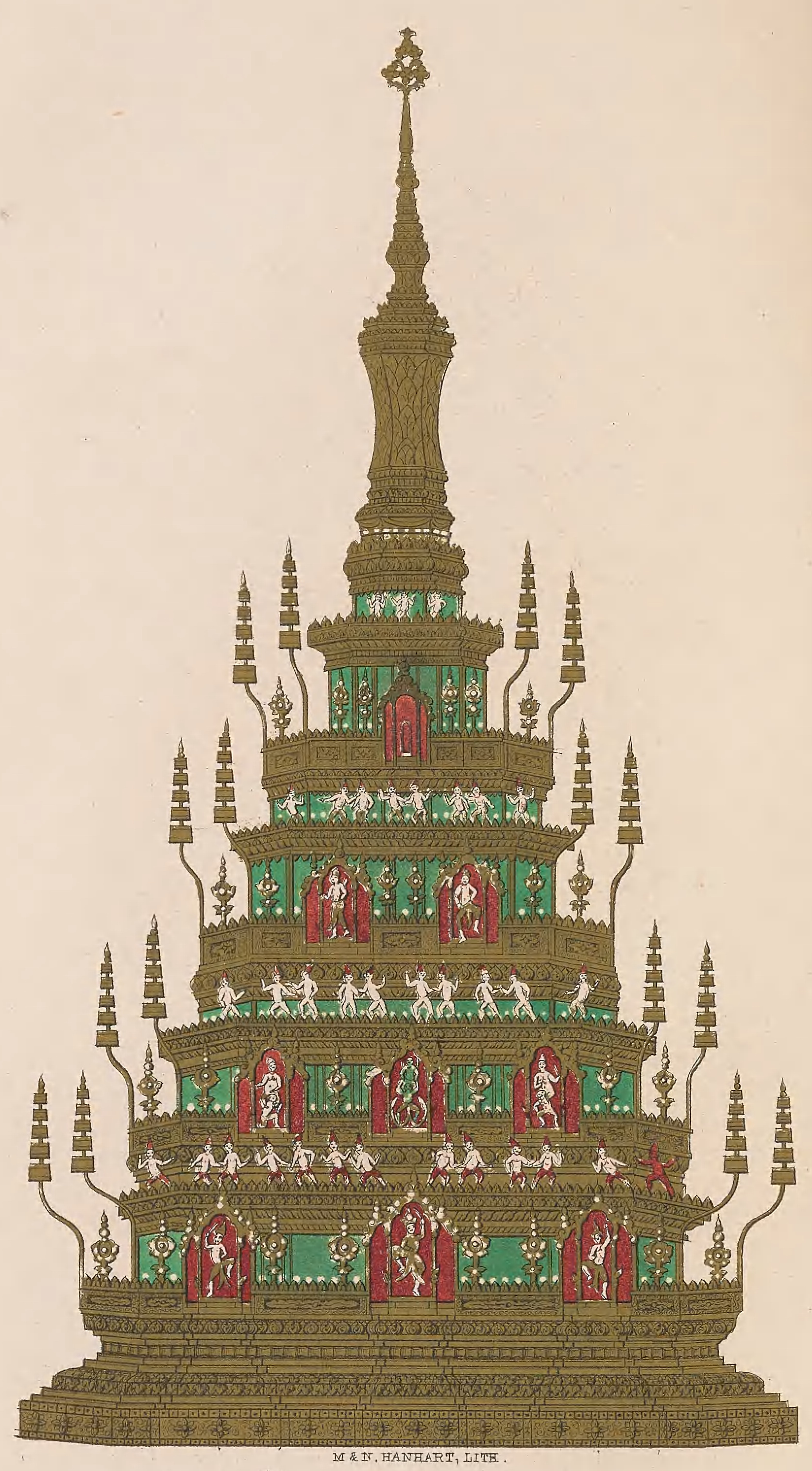 Royal urn of King Rama III of Siam. Drawing from "Description du Royaume Thai ou Siam" by Jean-Baptiste Pallegoix, printed in Paris in 1854